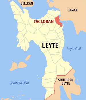 Map of Leyte showing the location of Tacloban City